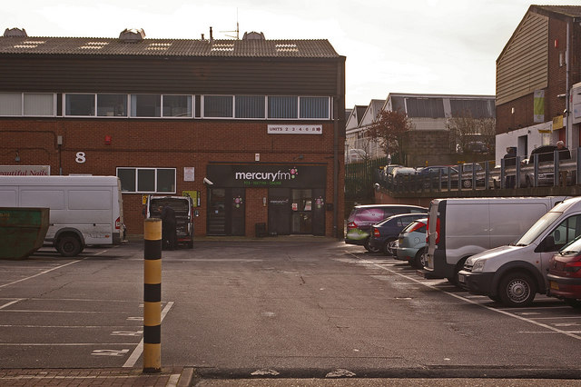 Mercury fm studios An independent radio station serving Surrey and Sussex. These are their studios in the Stanley Centre, Kelvin Way on the Manor Royal Industrial Estate.